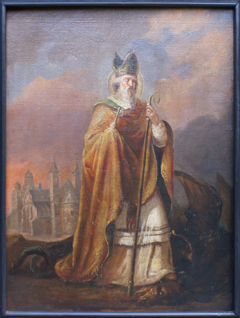 Oil painting of Saint Servatius crushing the dragon, possibly by local artist Theodore Schaepkens, in the sacristy of the Basilica of Our Lady in Maastricht, the Netherlands.